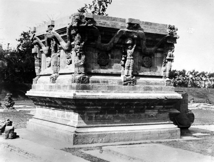 The Candi Naga at the Panataran temple complex